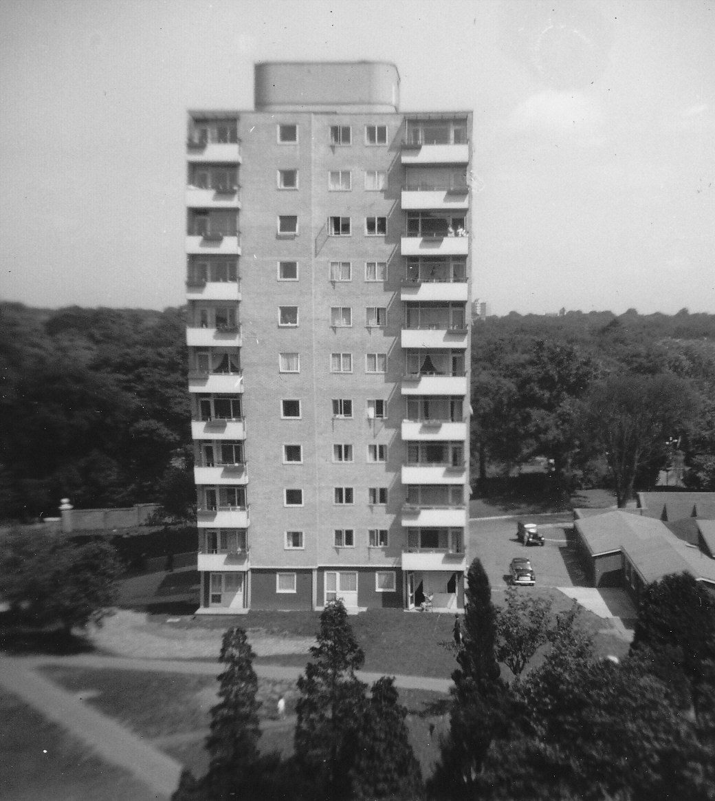 Illustrates new developments in British council housing (public housing) following the Second World War, 1955